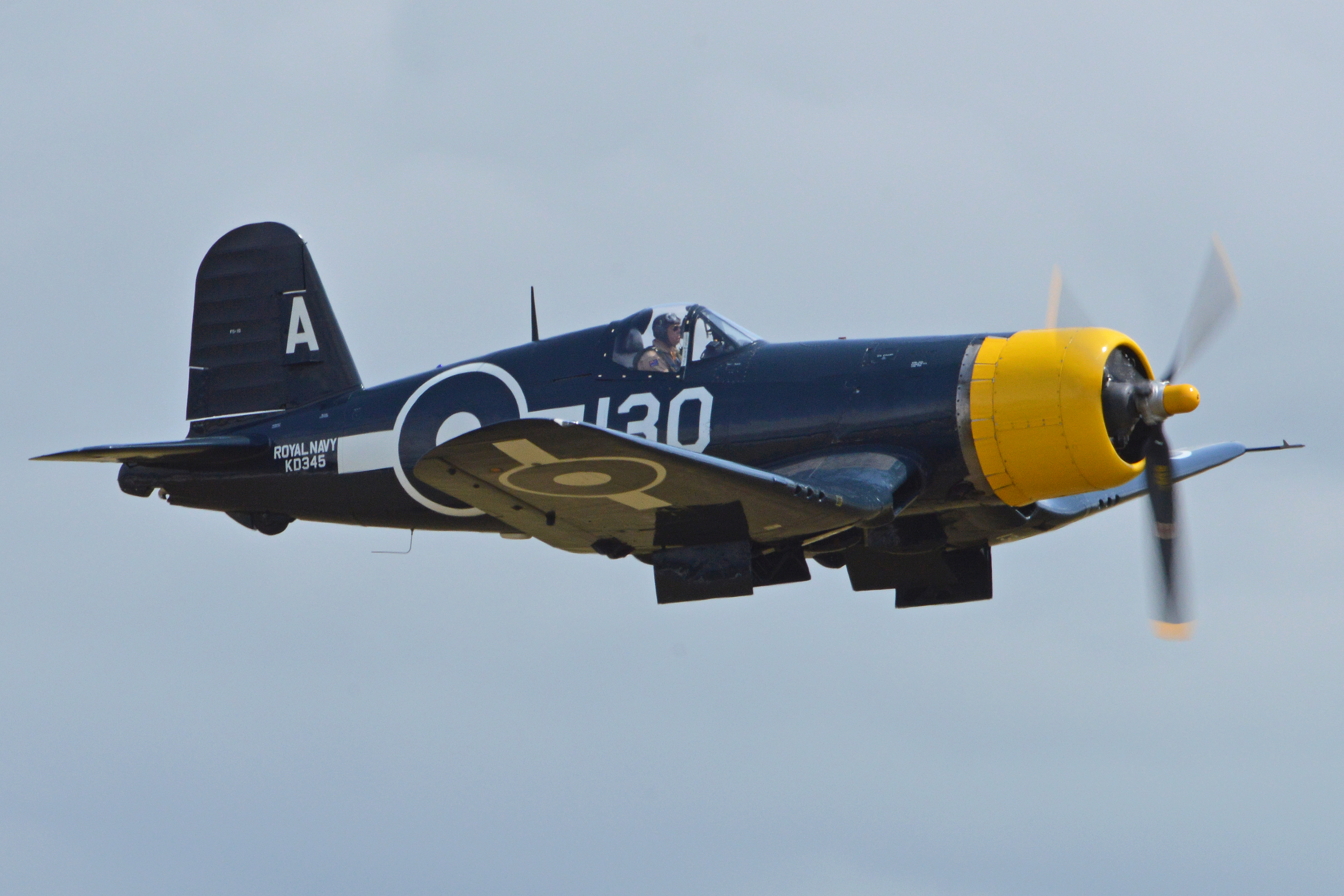 c/n 3111. US Navy Bureau No 88297. Operated by The Fighter Collection and based at Duxford. Painted to represent a Fleet Air Arm Corsair of 1850sqn. 2015 Flying Legends Airshow. Duxford, Cambridgeshire, UK. 12-7-2015